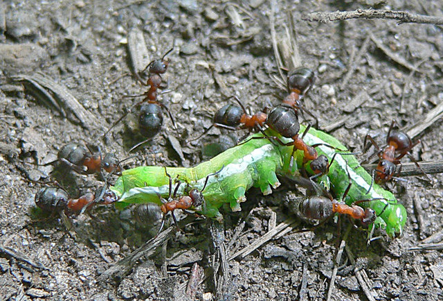 Wood Ants - formica rufa These ants are large, aggressive and attack by biting and spraying formic acid very effectively if disturbed.